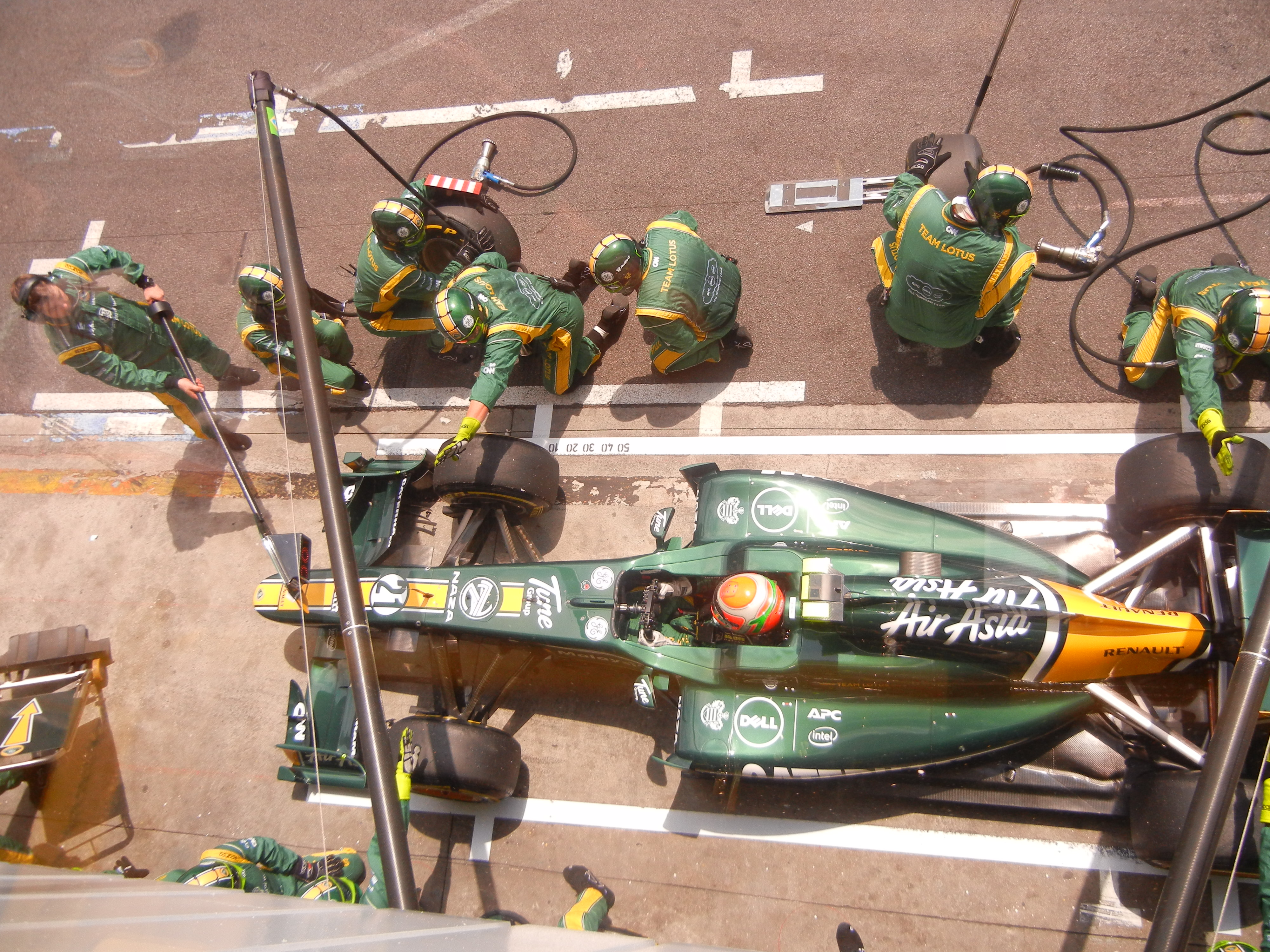 Team Lotus car in the pit lane during the race